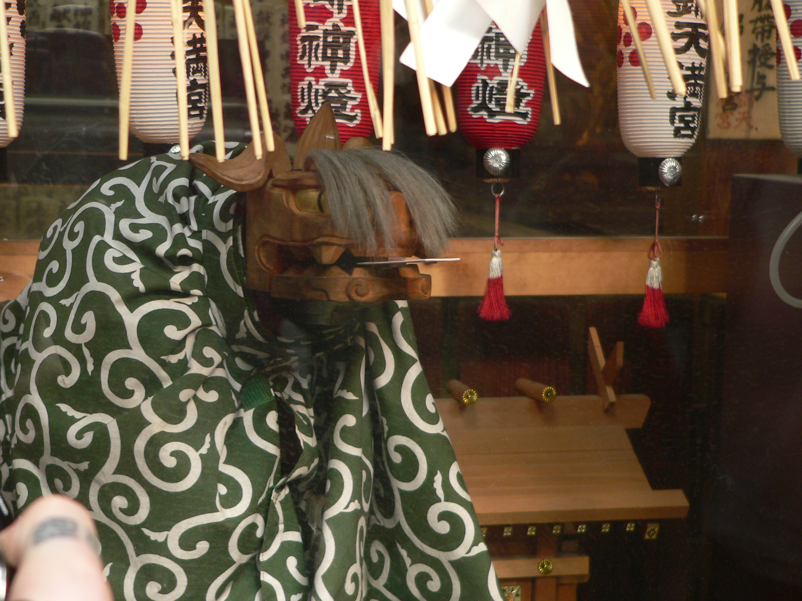 At Nishiki Tenmangu. In English, so less...